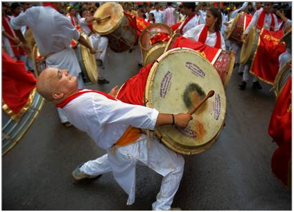 Dhol Being Played on the Streets of Pune while Ganesh Visarjan